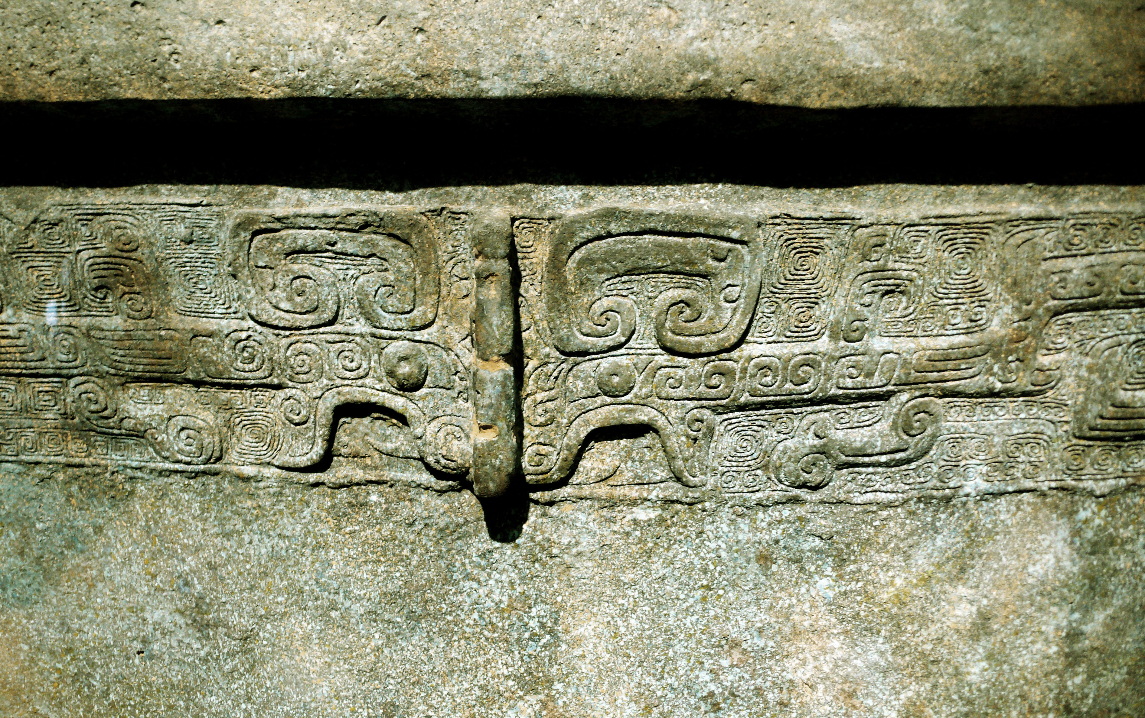 Replica of Si Mu Wu Ding, detail. Shang Dynasty, 14th-11th century BC. 133x110x79 cm, 832.84 kg. The Si Mu Wu Ding is the largest and heaviest bronze ware ever found in China. Accidentally discovered by local farmers in Anyang on March 19th, 1939, it is generally considered as one of the most symbolic national treasures of China. The original piece is now stored in National Museum of China in Beijing, and closed to public. In Chinese history and culture, possession of an Ding is often associated with power and dominion over the whole country. Consequently a Ding as ancient and significant as the Si Mu Wu Ding became the most highly sought after artifact by the Japanese occupational force, the Nationalists and the Communists alike during WWII and the following civil war.